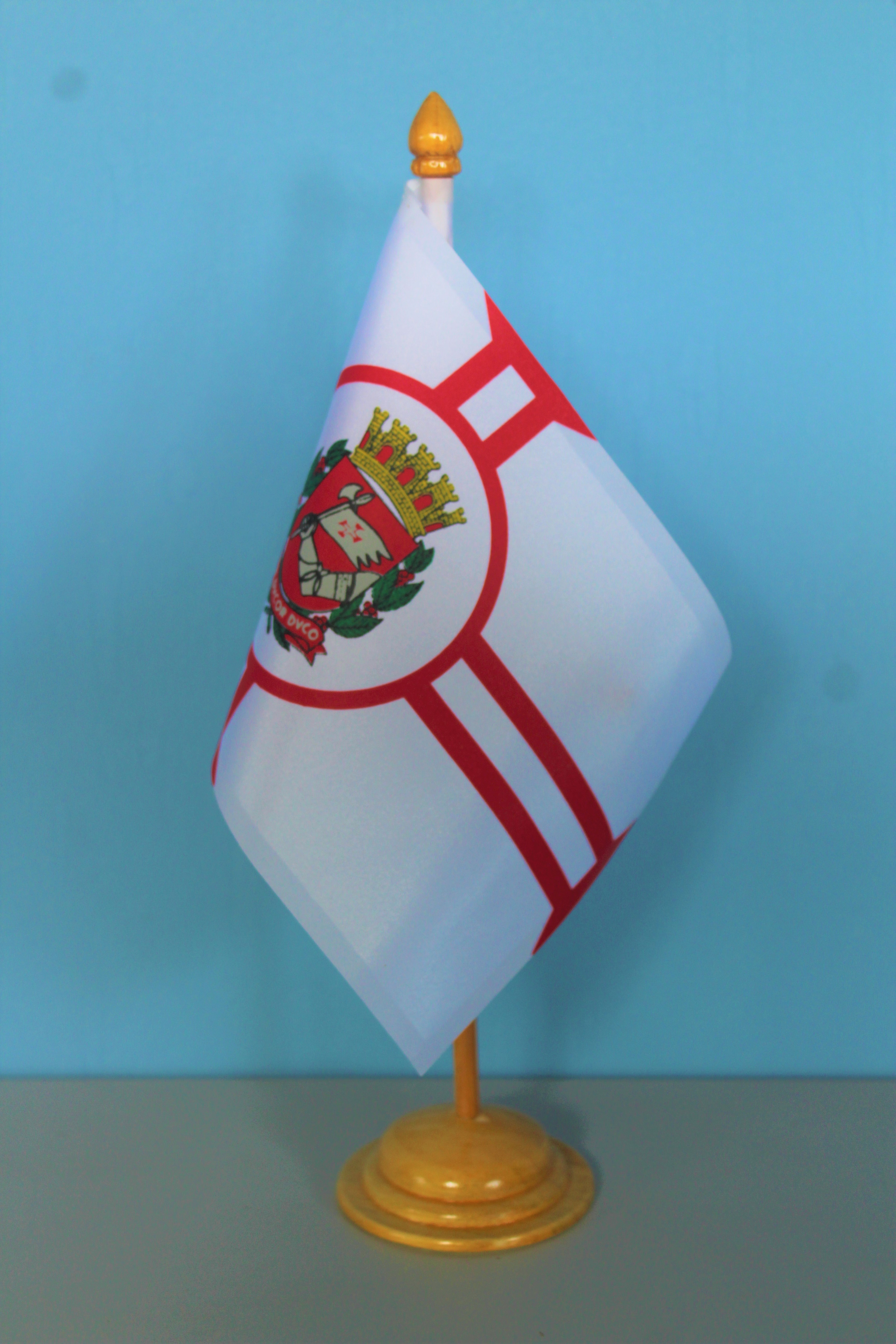 Flag of São Paulo city (São Paulo, Brazil)